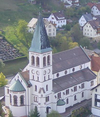 Catholic Church St. Michael in Lauterbach (Black Forest, Germany)